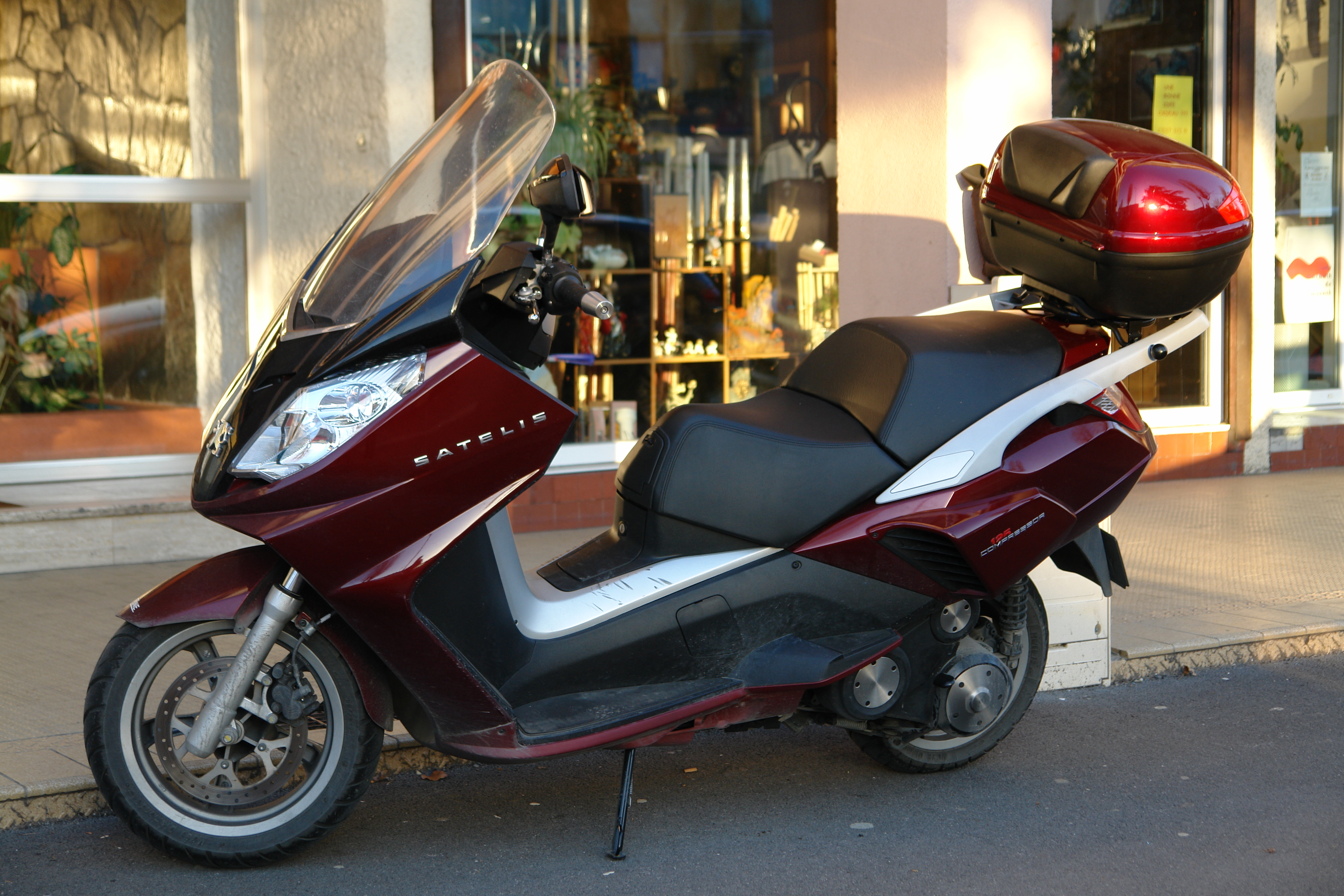 Scooter Peugeot Satelis 125 Compressor.